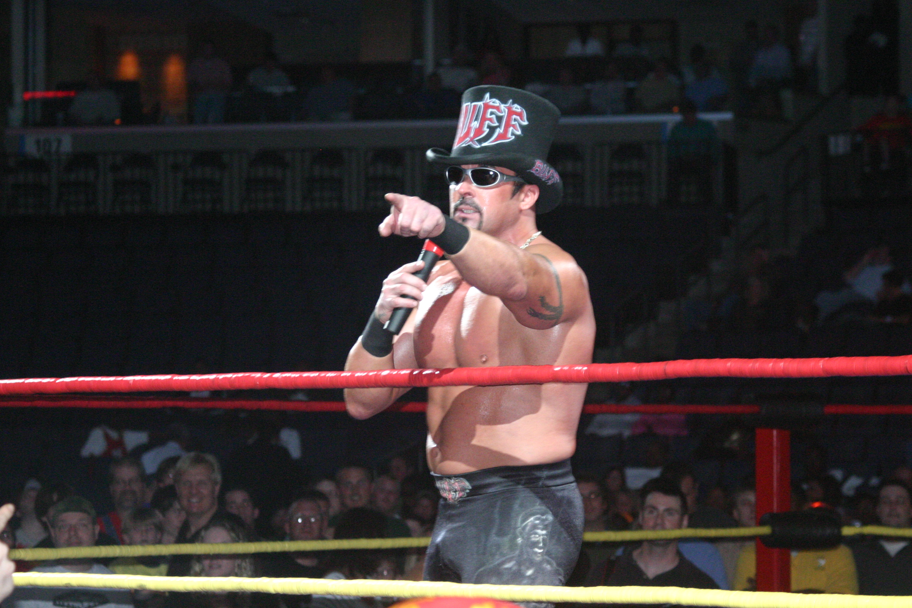 Buff Bagwell wrestling at an indy show